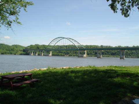 Presented here is a photo of the Dubuque-Wisconsin Bridge that was taken by me in May of 2004. The photo was taken just north of the bridge at the Riverview Park, Dubuque.